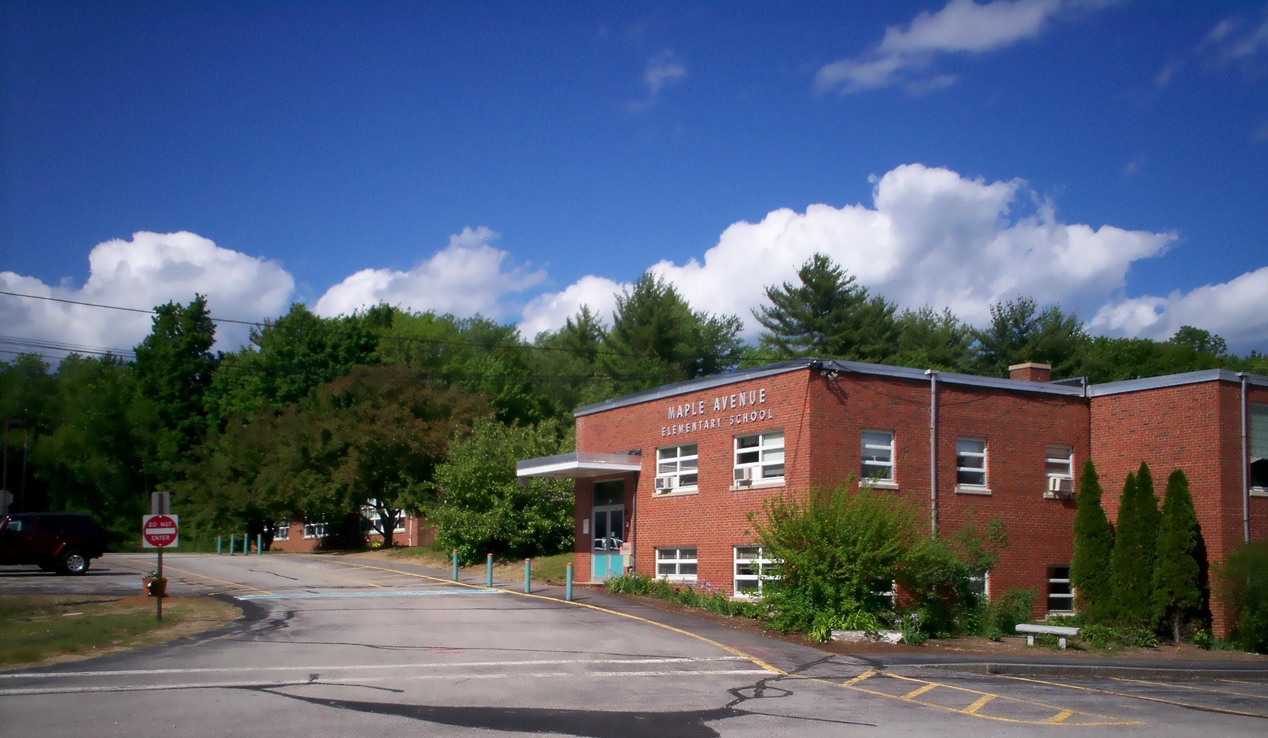 A photograph of the main entrance to Maple Avenue Elementary School in Goffstown, New Hampshire.